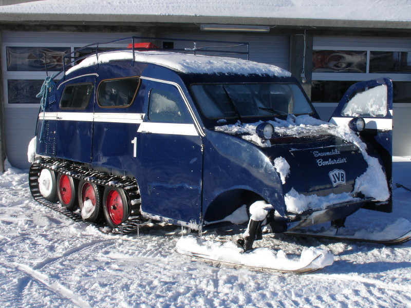 This is one of about 20 complete Bombardier Snowmobiles known to exist in Norway. Bombardiers are used for winter transportation of hotel guests at different tourist resorts. This is a 1963 model, as would be evidenced by its rectangular windows and steel body panels. Smuksjøseter Fjellstue by Rondane_nasjonalpark owns two snowmobiles to bring their guests during winter season. :no:Sikkilsdalen owns four wood Bombardiers to bring their guest during winter season. The largest collection of Bombardiers in Norway is owned by JVB and are in use at beltebilruta fra Tyin til Eidsbugarden, a regular route in Jotunheimen. 10 of the JVBs 12 snowmobiles operates on this route while the last two operates a route between Beitostølen and Bygdin. )